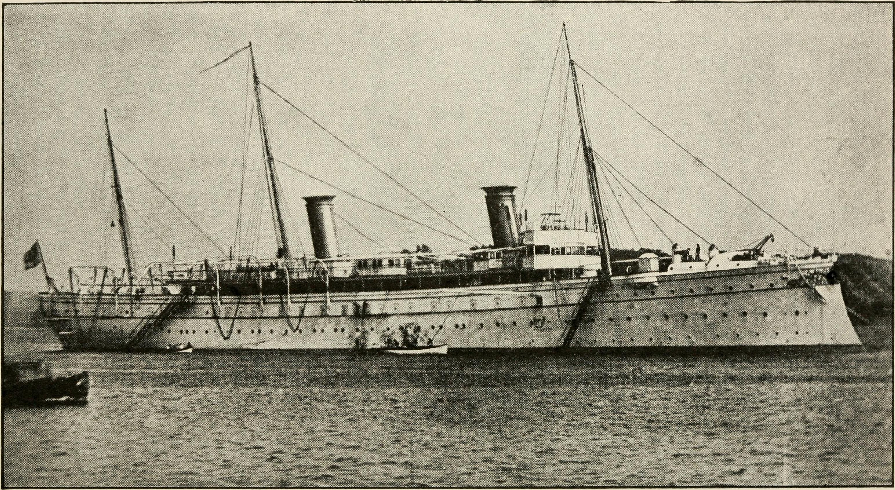 The former Kaiser’s yacht the „Hohenzollern“ in which he was cruising in Norway when the war was to begin. (undated picture, date is before vessel modernisation march 1906)